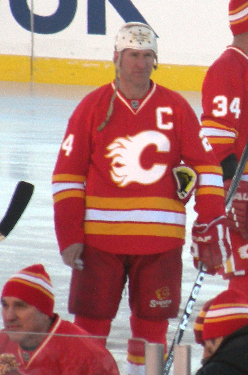 Former NHL player Jim Peplinski during the alumni game at the 2011 Heritage Classic in Calgary.